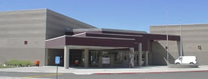 Phs